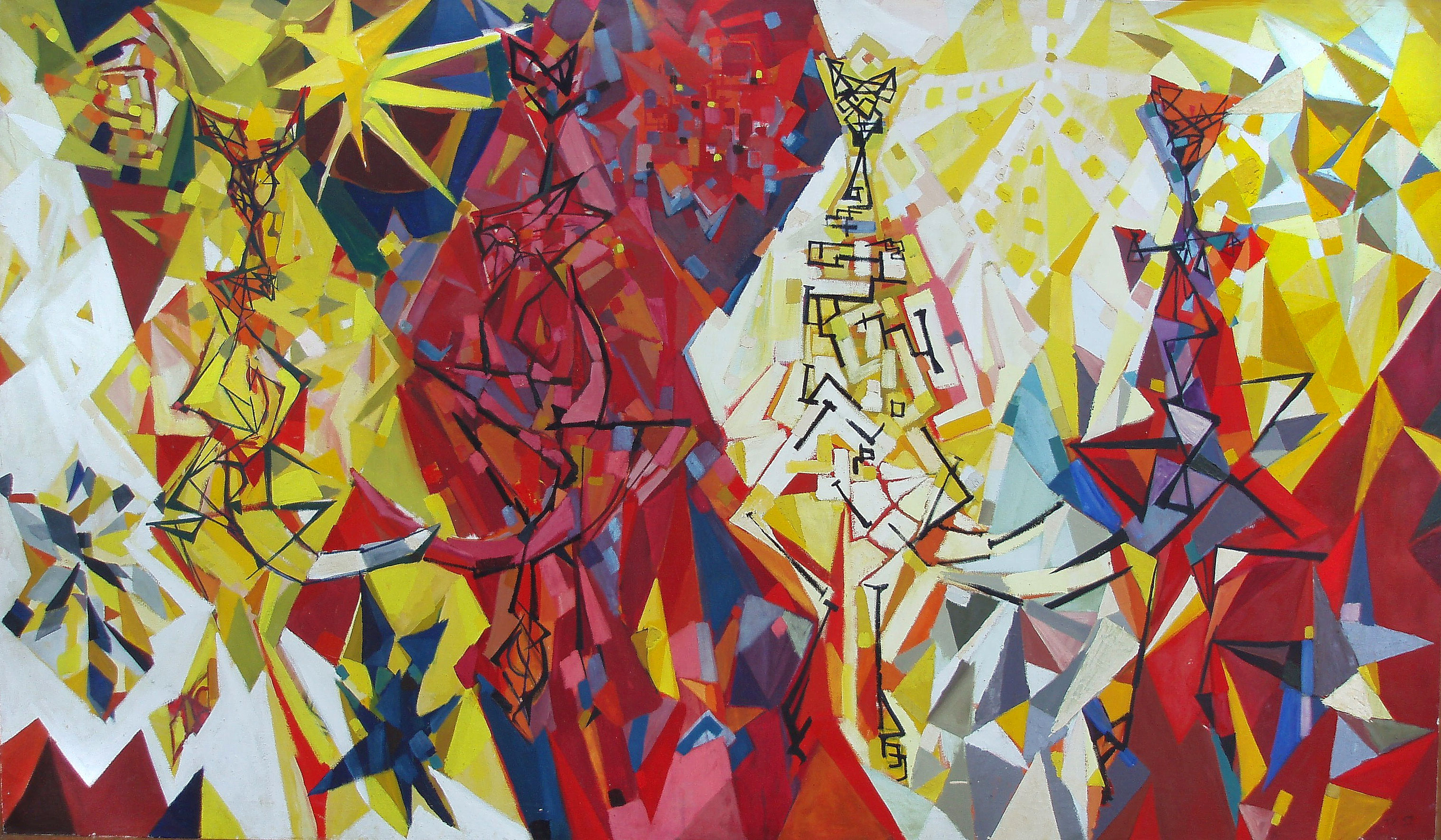 Kangaroo Paddock by Peter Benjamin Graham, Hand Ground Oils On Canvas, 1420mm x 2455mm PGAF#94